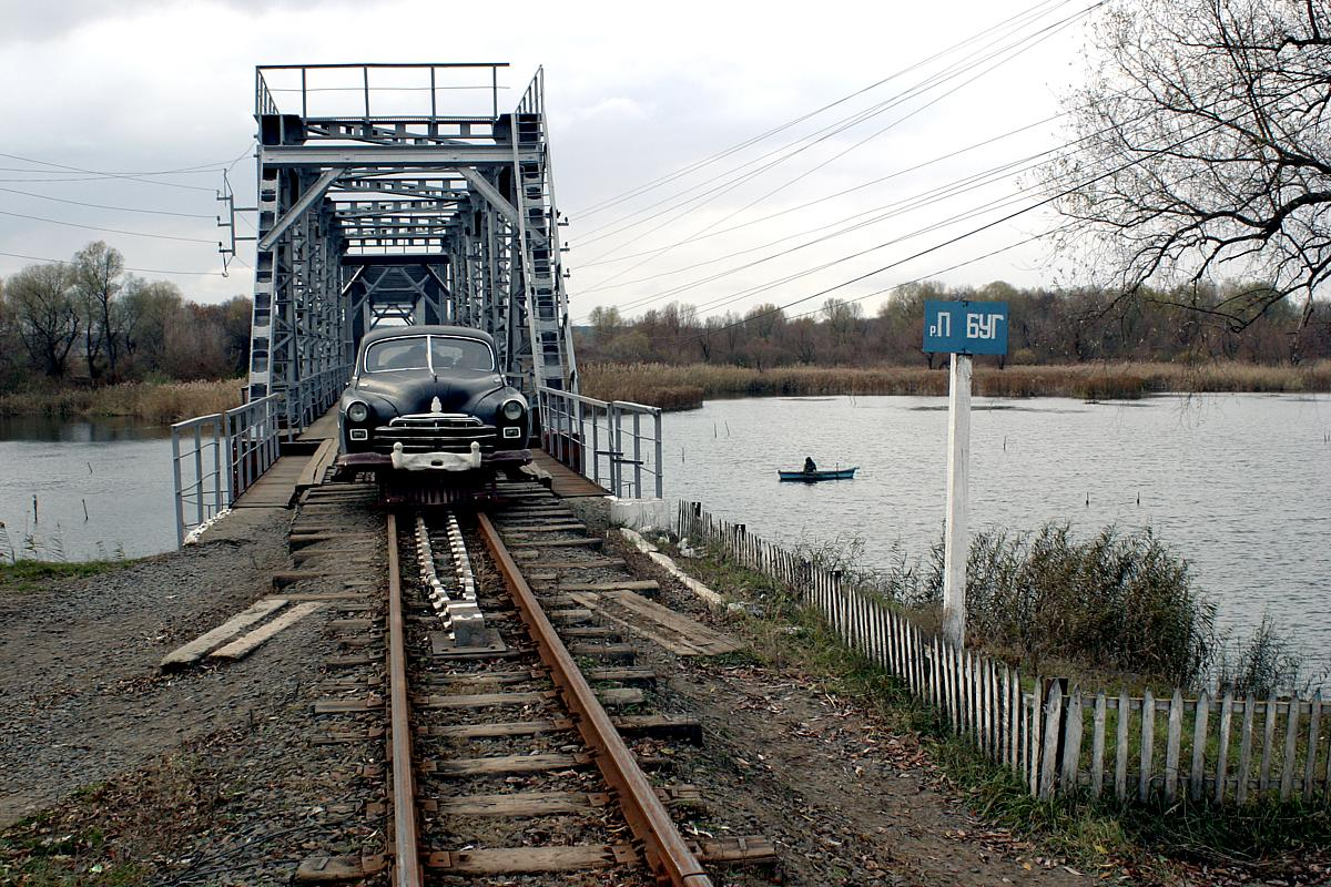 ZIM narrow gauge (750mm) railcar on the bridge over Southern Bug near Gayvoron